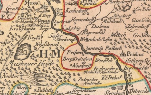 Crop from the map Image:Priebussischer Creis nebst Herrschaft Muska.png.